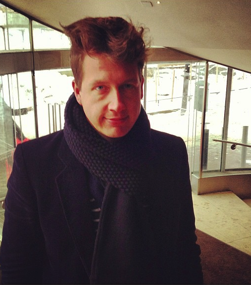 Name :Yvan Rodic Born :1977 Nationality: Swiss Education: Communication Occupation, Streetstyle Photographer & Blogger Known : Face Hunter Yvan Rodic Aka Face Hunter January 2013 At Stockholm Fashion Week